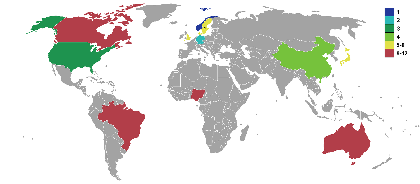 Final rankings of the Teams on FIFA Womens World Cup 1995, showing: winner = dark blue runner-up = light blue third = dark green fourth = light green quarterfinals = yellow group stage = red yellow square = host nation (Sweden)